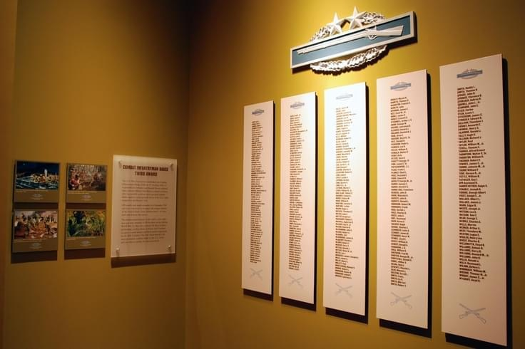 Exhibit of receipts of the Third Award Combat Infantryman Badge. Earned by noted veterans who have served in “harms way” during recognized military Wars/Conflicts.